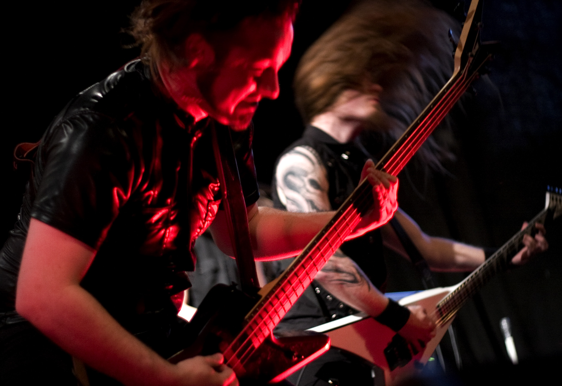 Étienne Mailloux and Terry Deschenes from Blackguard performing live at Pganfest 2009.